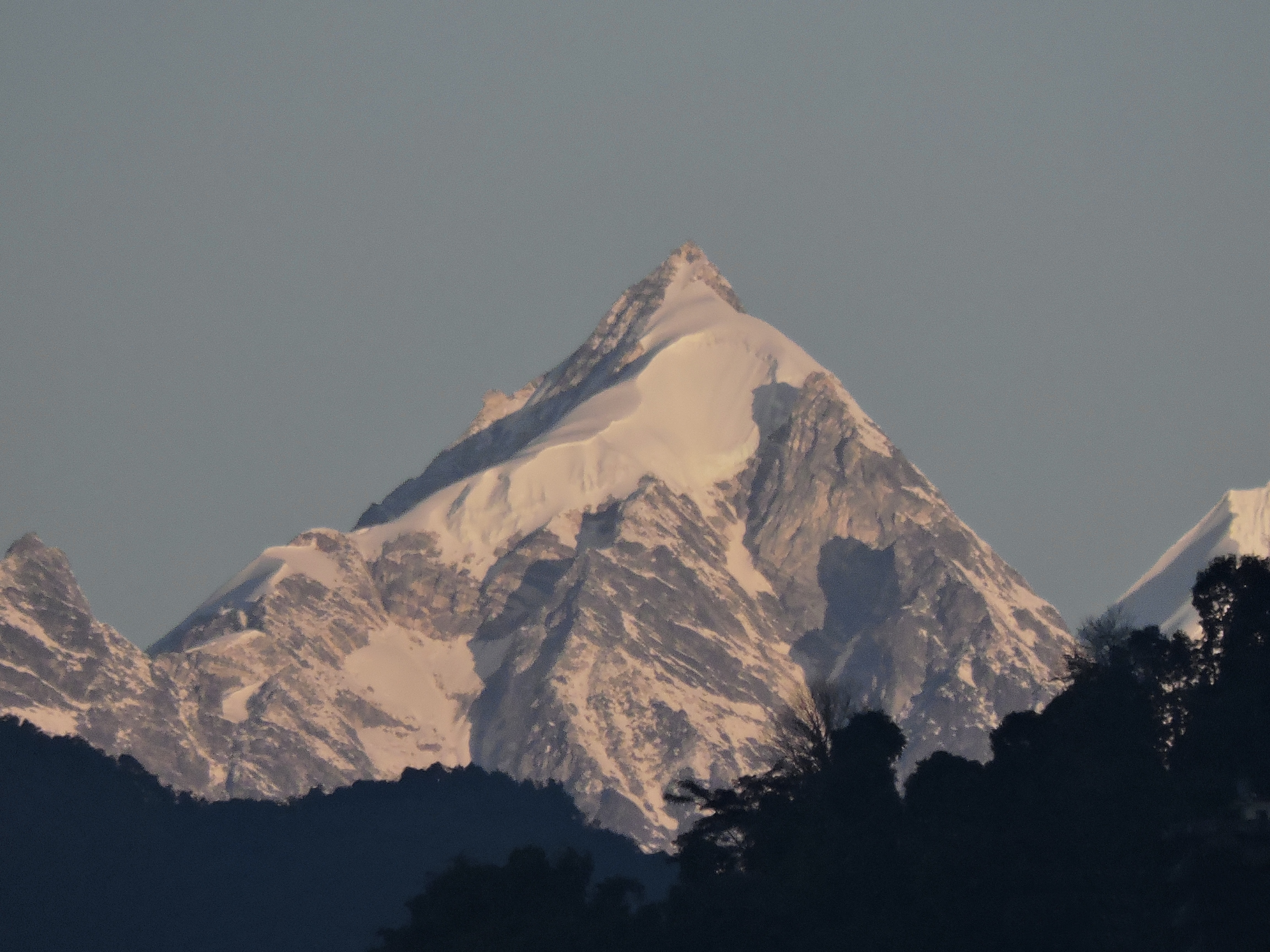 Mount Kanchanjunga from Takchang